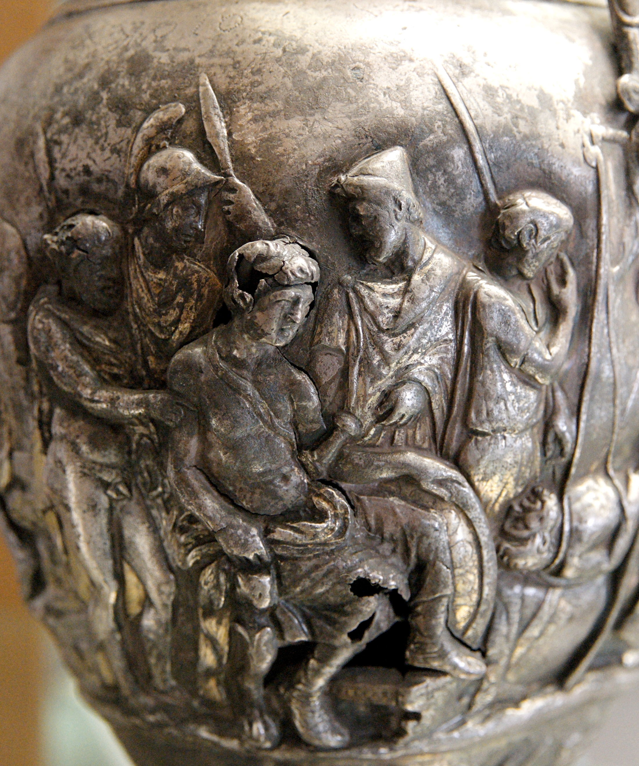 Priam (wearing a Phrygian cap) offers Achilles a ransom for the body of Hector. Detail of a silver oinochoe dedicated by Q. Domitius Tutus, made in Italy, first half of the 1st century AD. From the Berthouville treasure.